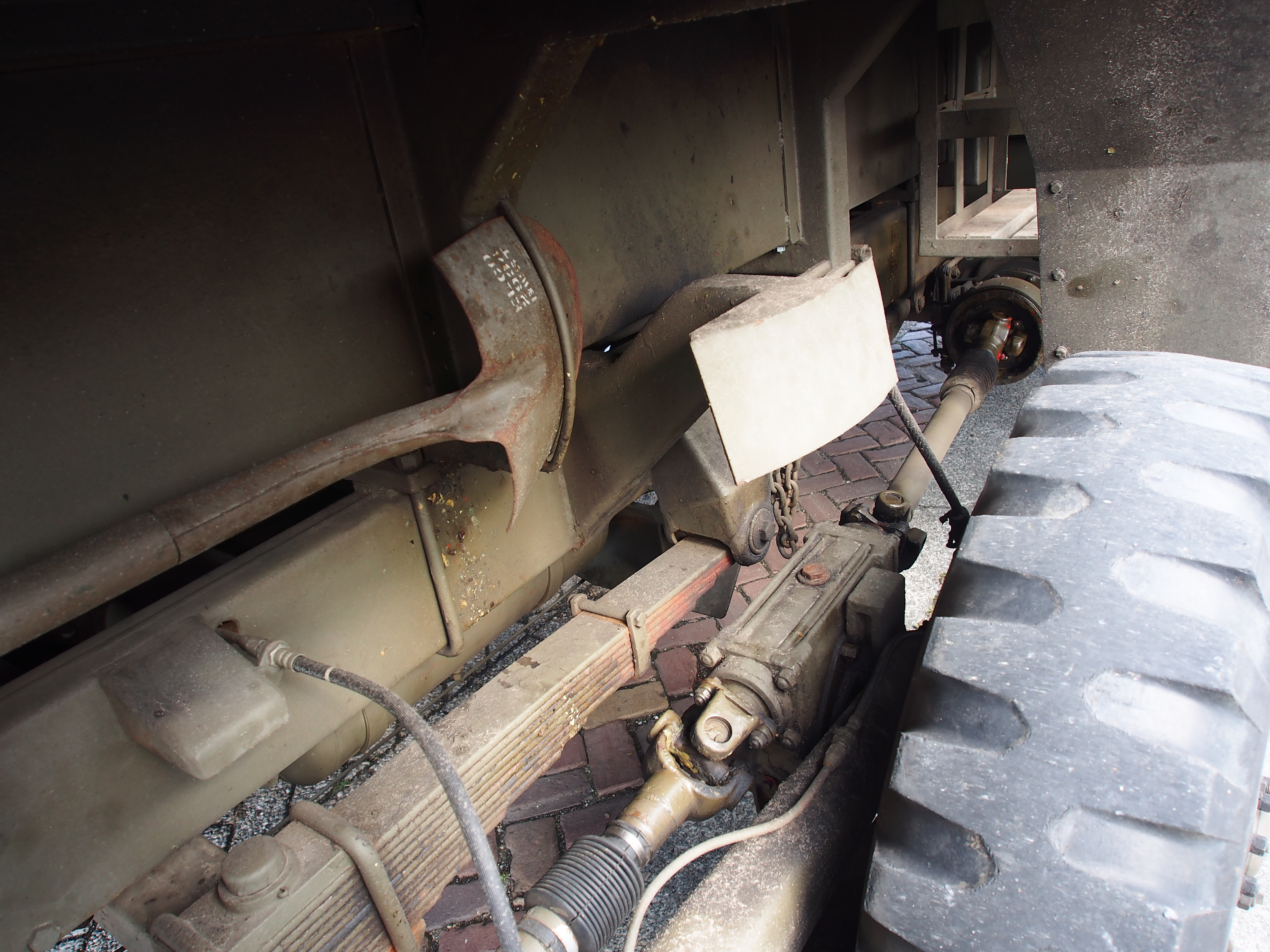 Photographed at the Cavalerie museum, Amersfoort, The Netherlands.